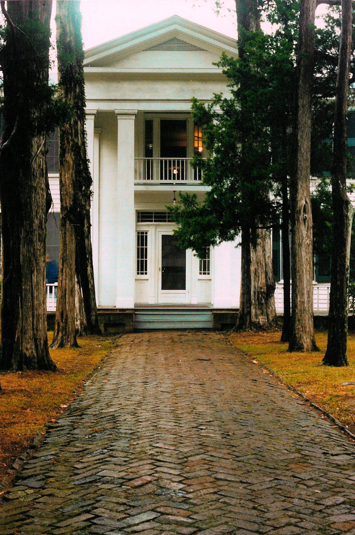 Front walk and entrance of Rowan Oak, the home of Nobel laureate and American novelist William Faulkner in Oxford, Mississippi. It is now owned and maintained by the University of Mississippi as a museum. One of the oldest structures in Oxford, this Greek Revival house on Old Taylor Road was built in the 1840s by a Colonel Shegog. Faulkner bought the crumbling house, then known as the “Bailey Place” in 1930 and promptly renamed it, then slowly refurbished it. Faulkner’s daughter sold Rowan Oak to the university in 1972. It is a National Historic Landmark.